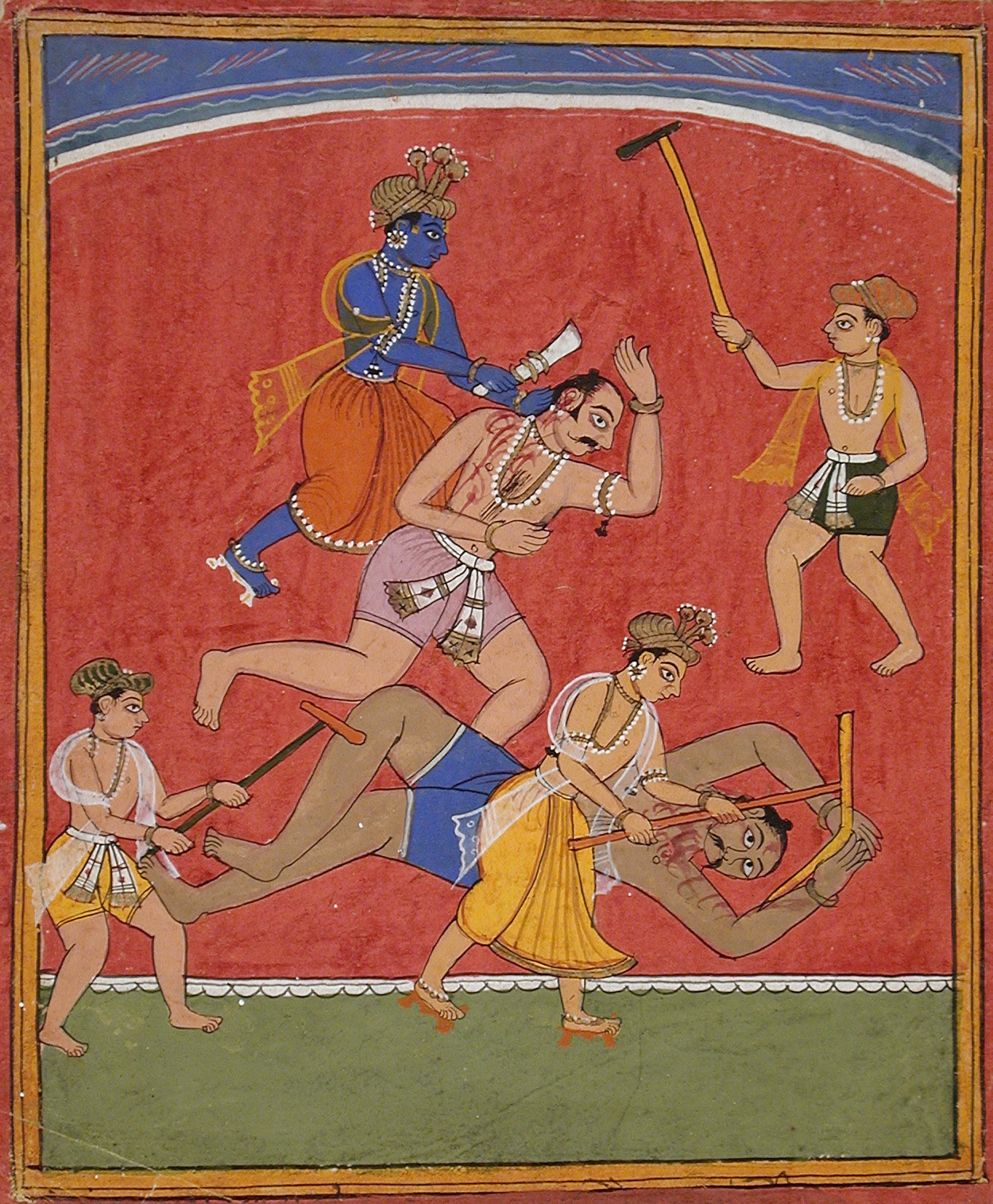 India, Rajasthan, Mewar, circa 1630 Drawings; watercolors Opaque watercolor and gold on paper 9 x 7 1/2 in. (22.86 x 19.05 cm) Gift of Doris Wiener (AC1995.163.1) South and Southeast Asian Art